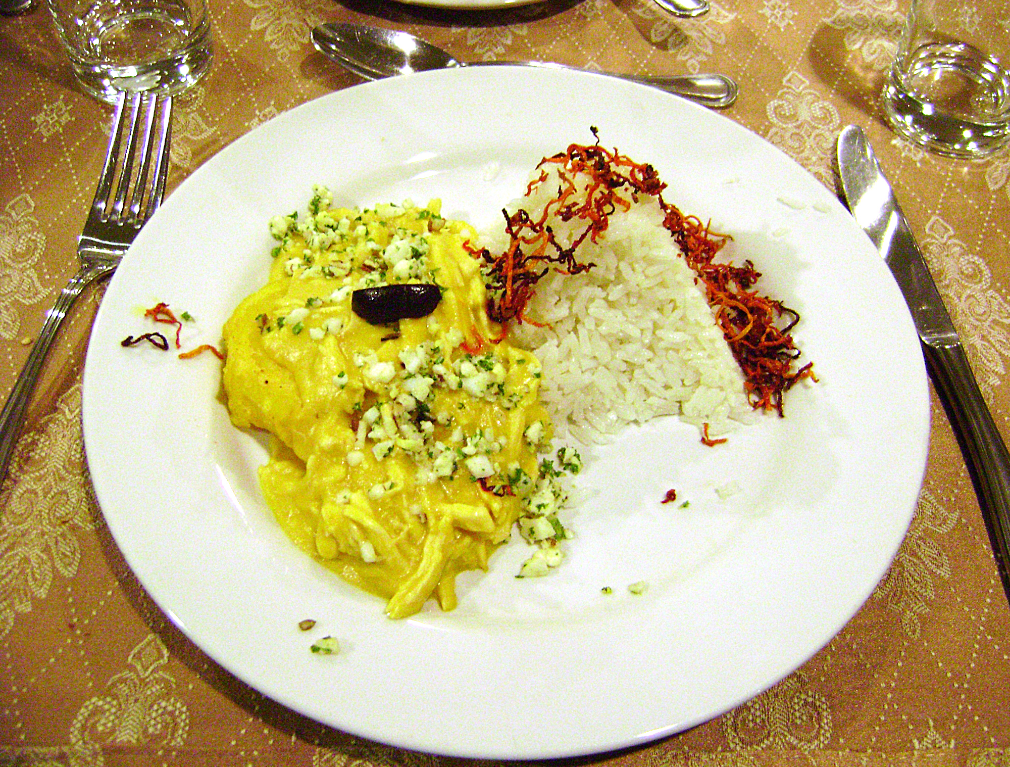 Ají de gallina, tradicional meal of Peruvian creole cuisine.